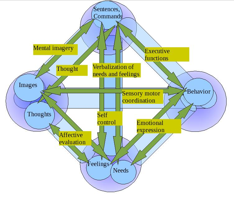 A systems approach on mental operations. Based on information from Tapu, C.S. (2001). Hypostatic personality: Psychopathology of Doing and Being Made. Premier, pp. 18-19